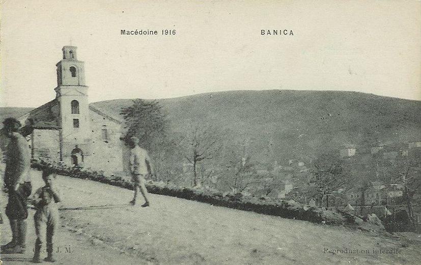 The church St. George in the village of Banitsa / Vevi, Aegean Macedonia, Greece